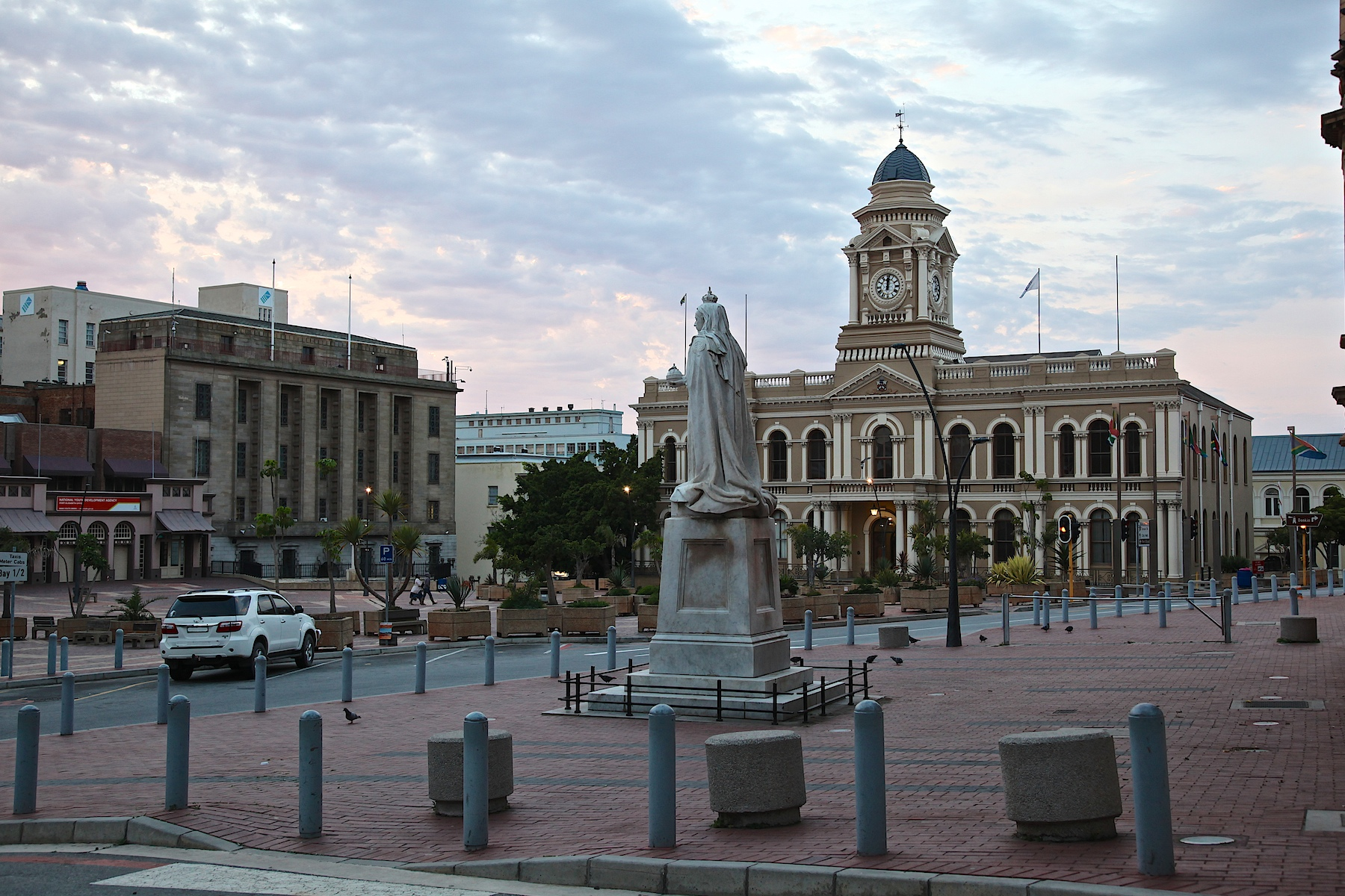 City Hall, Market Square, Port Elizabeth This media shows a South African Protected Site with SAHRA file reference 9/2/073/0028.